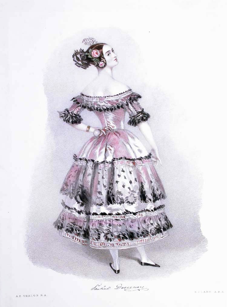 Pauline Duvernay (1813-1894), after a portrait by A.E. Chalon